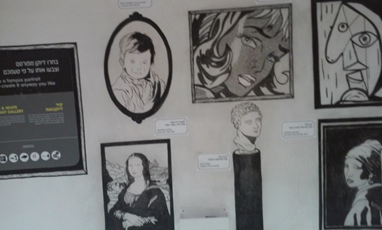 Lunada Children Museum